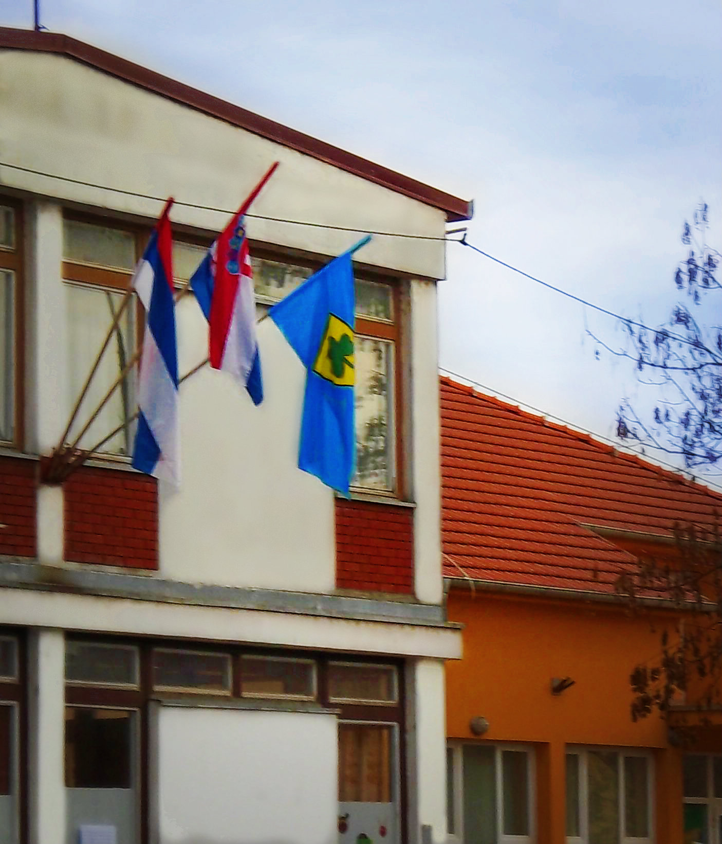 Flags in Bobota, Croatia